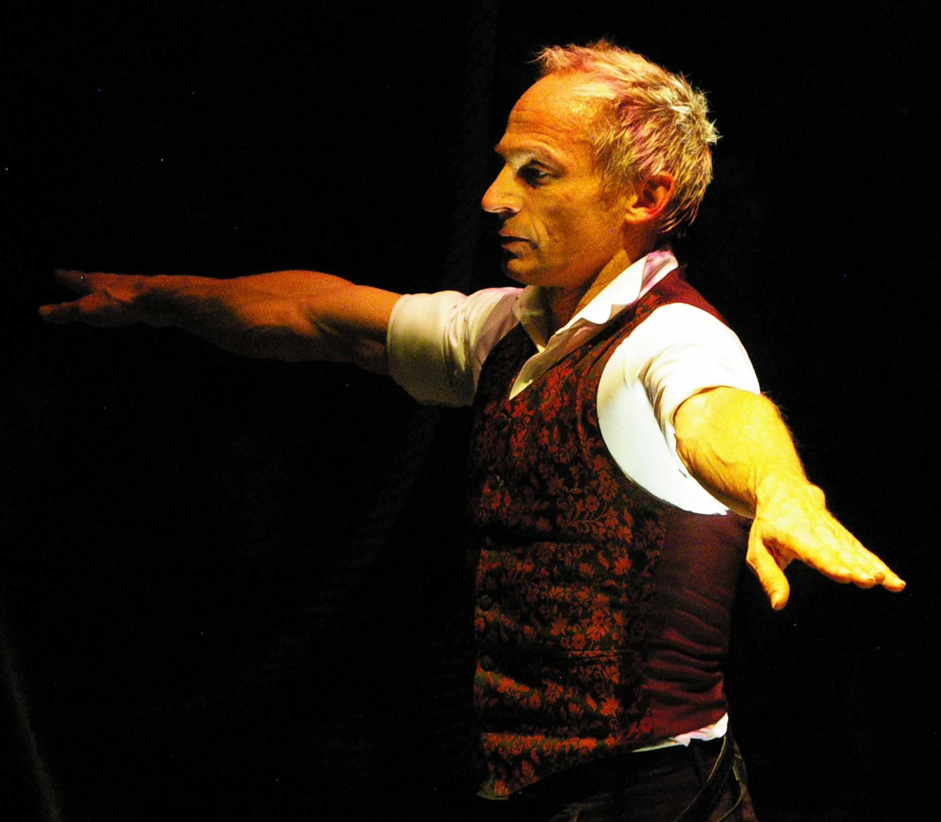 swiss circus artist